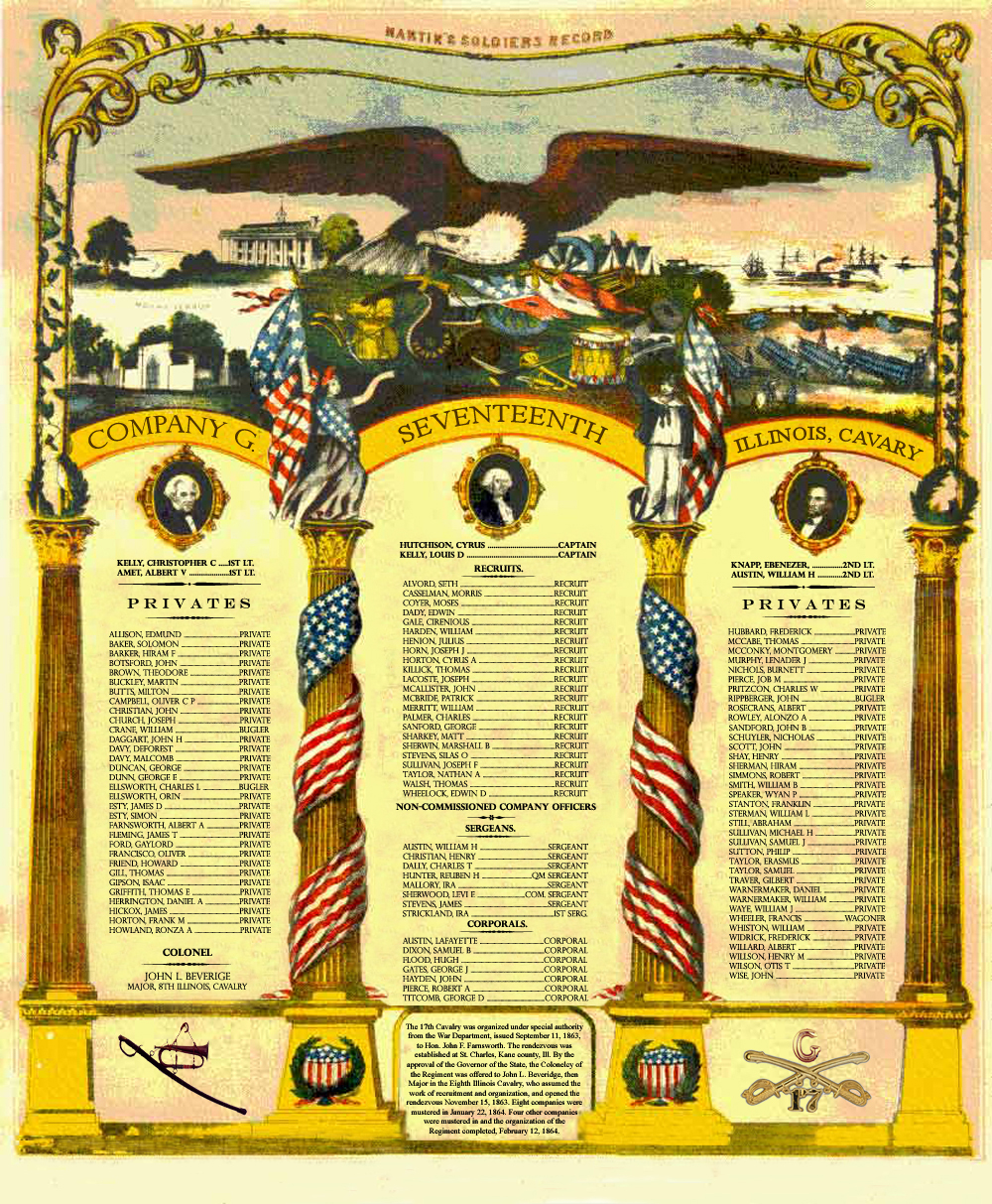 Roster